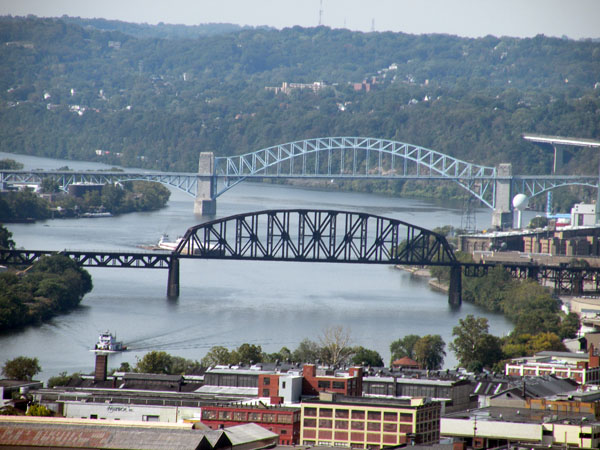 Picture of the Ohio Connecting Railroad Bridge (with the McKees Rocks Bridge in the background) over the Ohio River between Brunot Island and the Marshall-Shadeland neighborhood of Pittsburgh, Pennsylvania, on September 18, 2010. This picture was taken on Mount Washington near the Point of View sculpture. The bridge, a steel truss bridge, was built in 1915. It is still in use, and in 1999 the bridge was acquired by Norfolk Southern Railway. From the Marshall-Shadeland neighborhood of Pittsburgh, the bridge crosses the main channel of the Ohio River and connects to Brunot Island, it then crosses over the island, and from there it crosses the back channel of the Ohio River and touches down in the Esplen neighborhood of Pittsburgh. The bridge consists of two major through truss spans over the main and back channels of the river, of 508 feet (155 m) and 406 feet (124 m) respectively, with deck truss approaches.